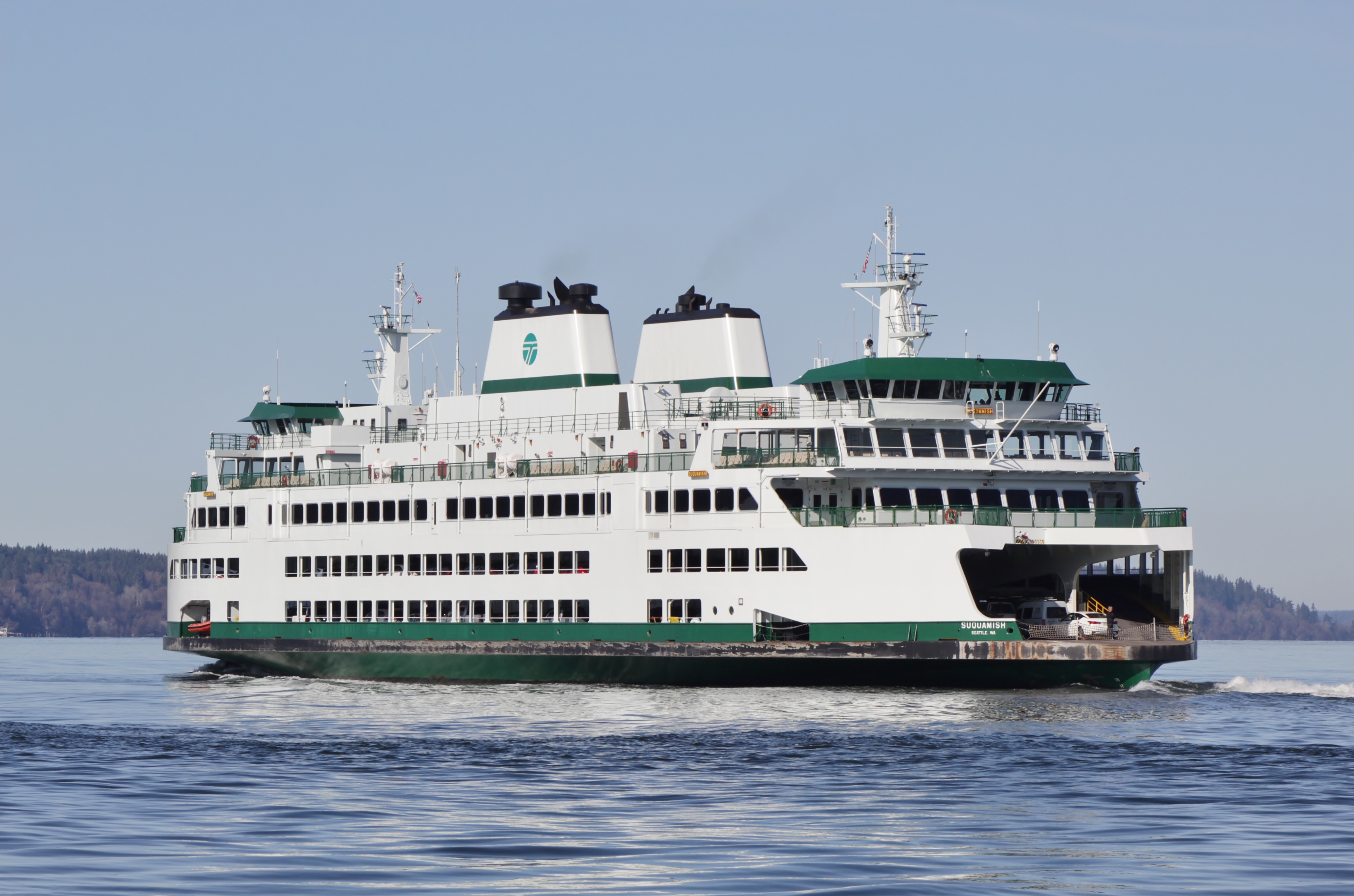 MV Suquamish, a state ferry vessel in Washington, seen leaving the Mukilteo terminal on its route to Whidbey Island.